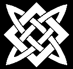 Svarog square, black/white version.